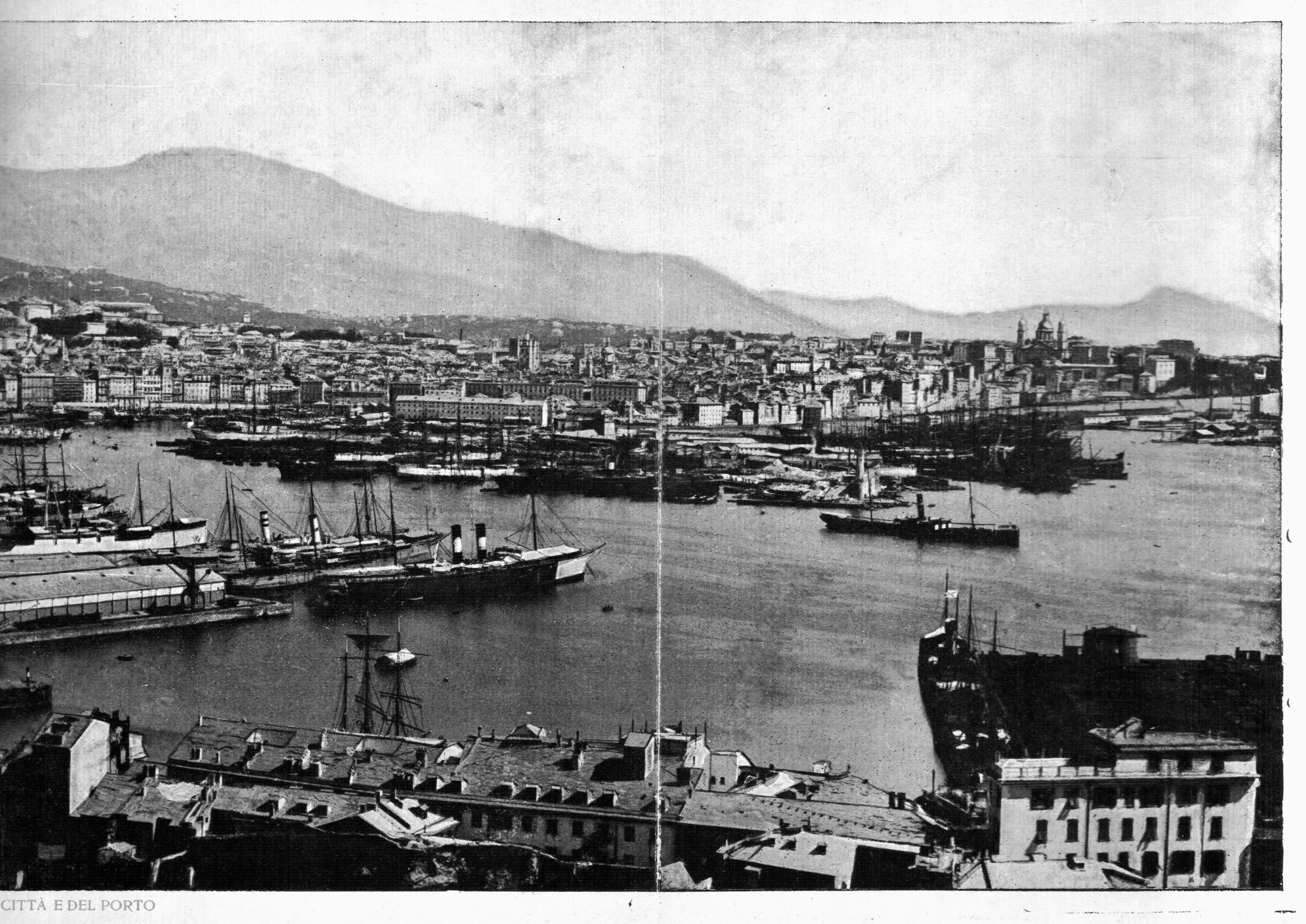 Genoa (1) and (2) are the two pieces of a photo.